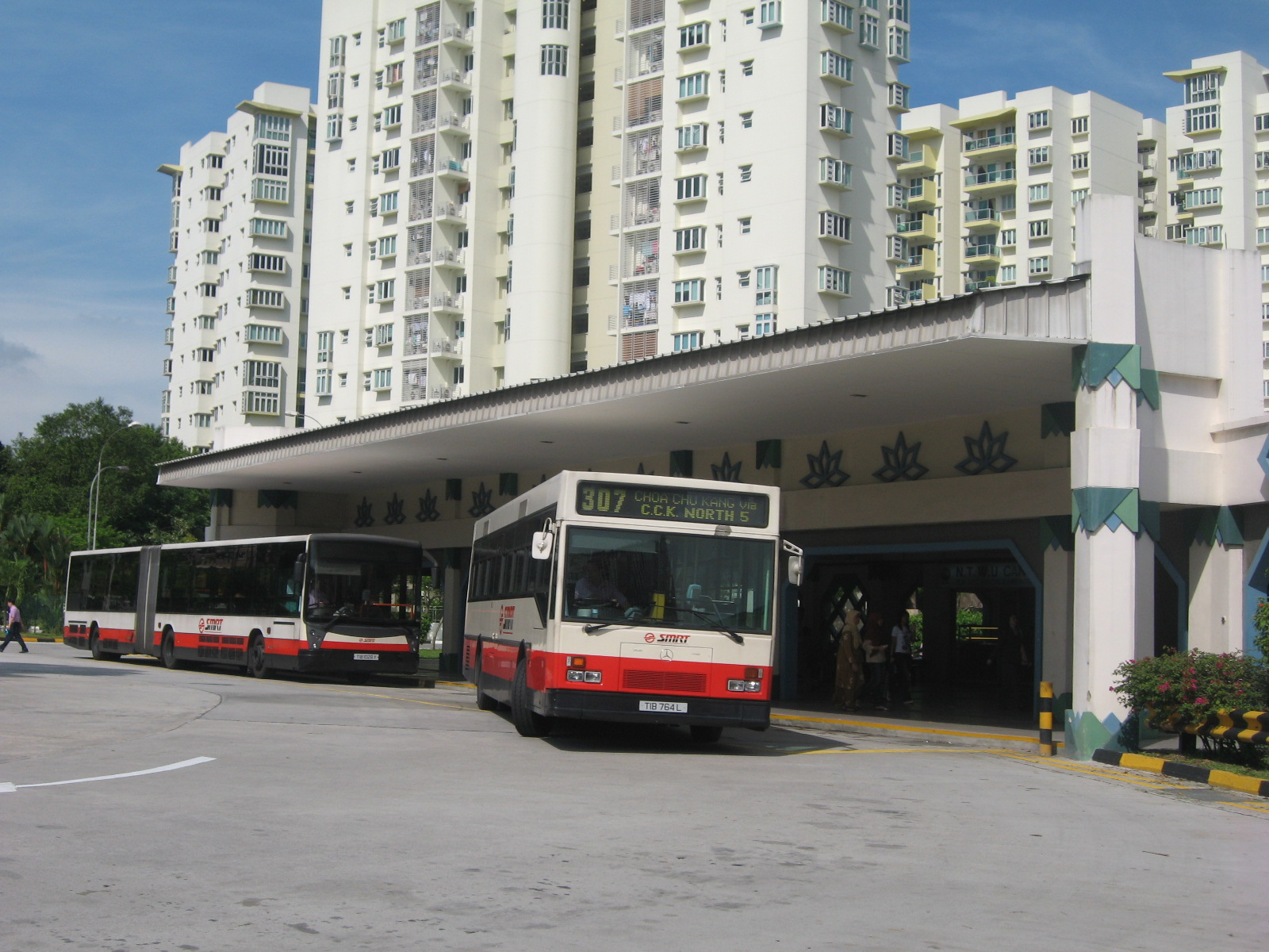 Choa Chu Kang Bus Interchange, Singapore. SMRT Buses. From right to left: Hispano bodied Mercedes-Benz O 405 (CAC, TIB764L, built 1995) and Hispano Habit on Mercedes-Benz O405G Euro 2 (probably TIB1028Y, built 2000).